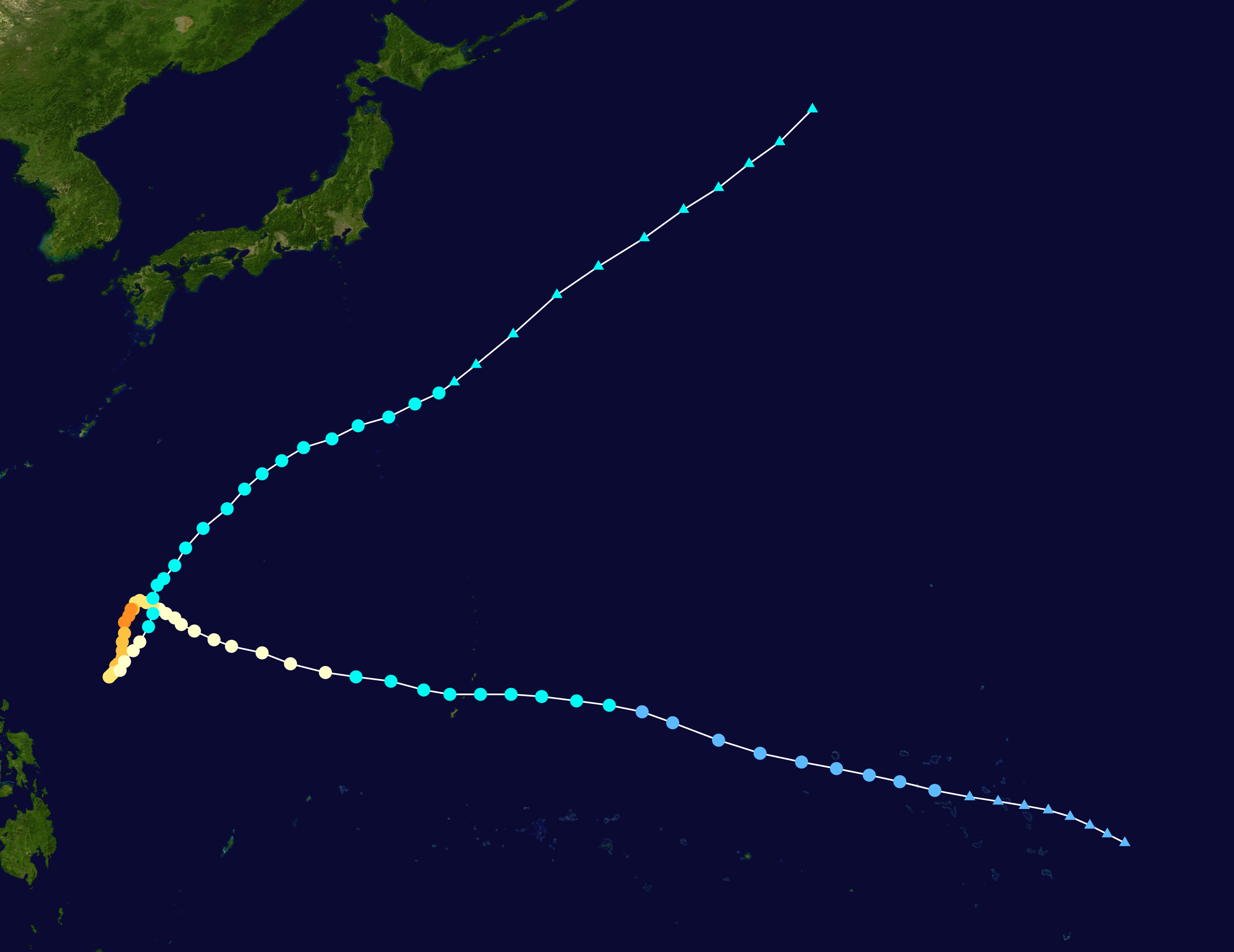 Typhoon Verne 1994 track. Uses the color scheme from the Saffir-Simpson Hurricane Scale.